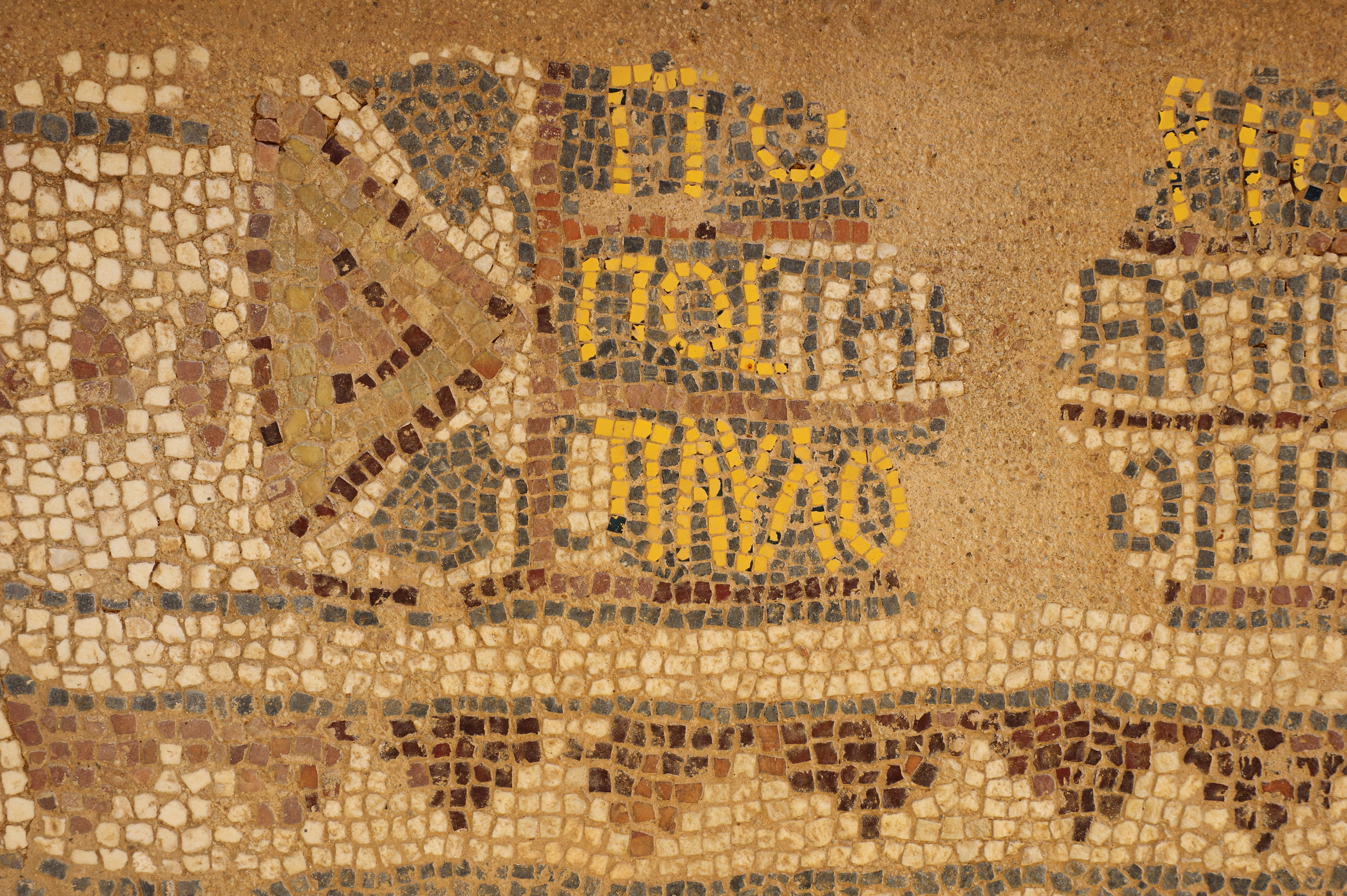 Philippi, Octagonal Basilica, floor mosaic with the name of St. Paul in the third line (Paulo, ΠΑΥΛΟ)